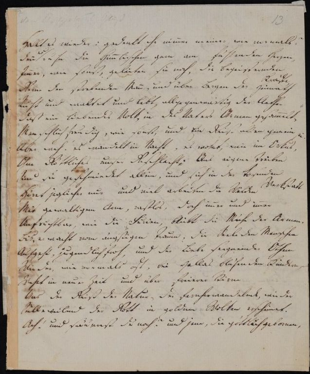 Manuscript of Friedrich Hölderlin: Der Archipelagus, page 13. From Homburg